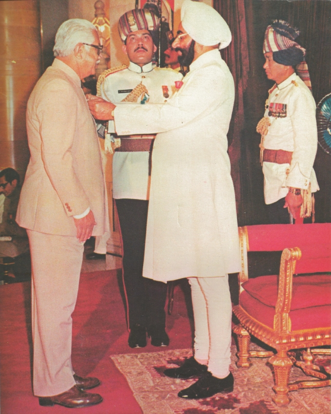 Zainulabedin Gulamhusain Rangoonwala being awarded the title of Padmashri